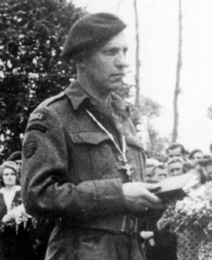 René de Naurois (1906-2006), French priest, chaplain, Resistant, Compagnon de la Libération, Righteous Among the Nations, ornithologist